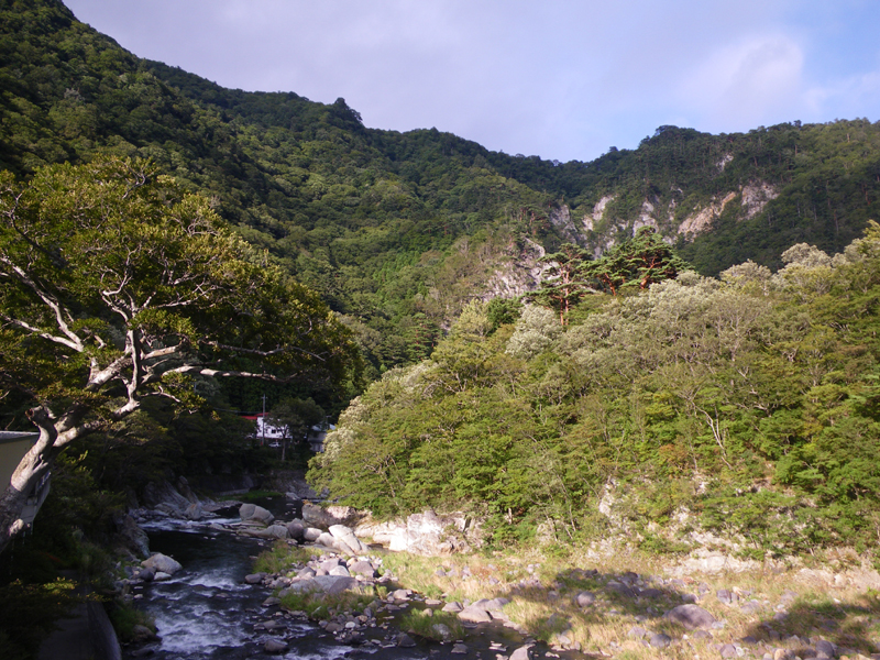 Hōkigawa river and Shiobara valley, near Siobara-onsen. Nasushiobara, Tochigi, Japan.